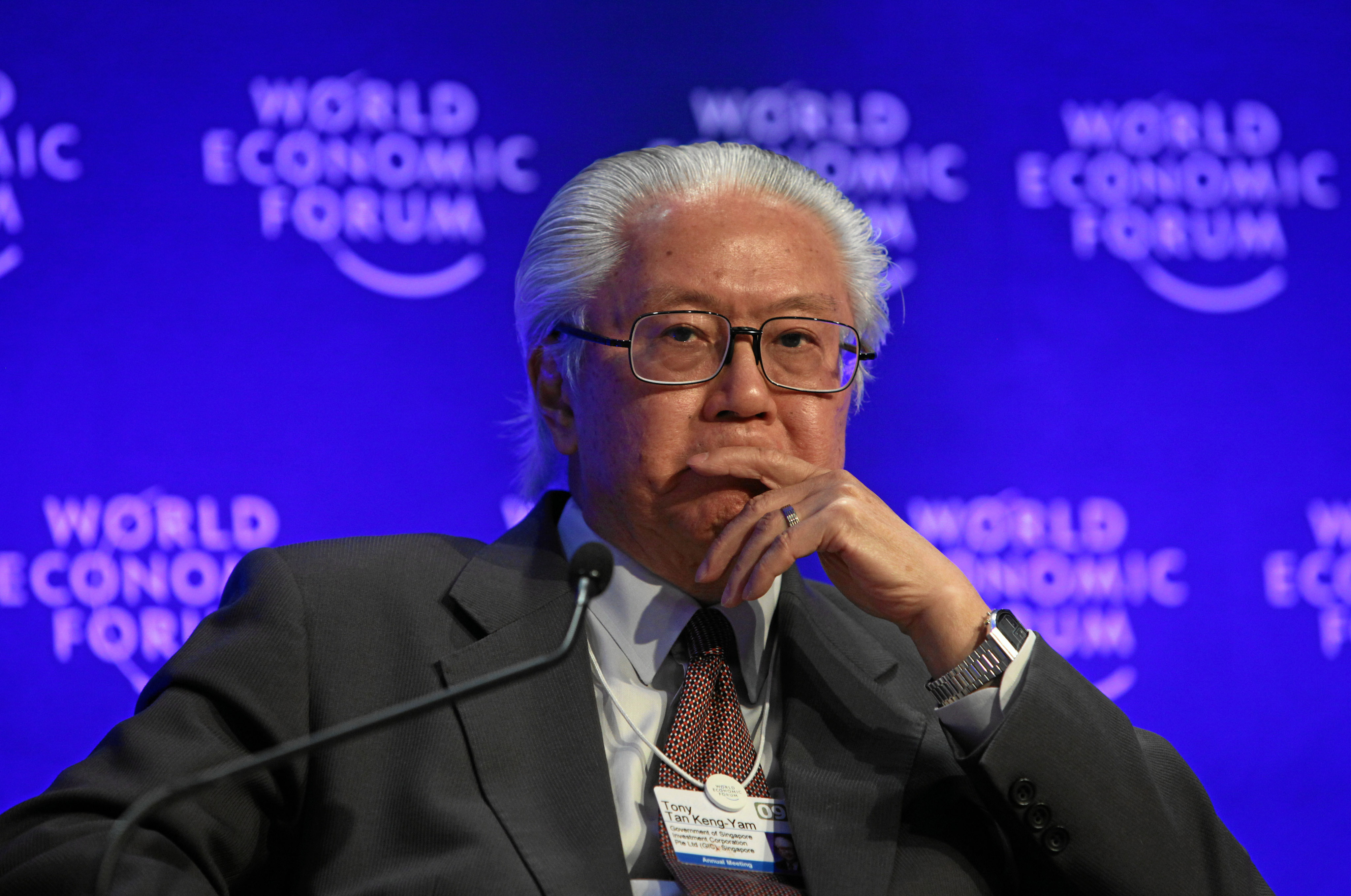 DAVOS-KLOSTERS/SWITZERLAND, 30JAN09 — Tony Tan Keng Yam, Deputy Chairman and Executive Director, Government of Singapore Investment Corporation (GIC), Singapore, during the session "Scenarios for the Future of the Global Financial System" at the Annual Meeting 2009 of the World Economic Forum in Davos, Switzerland, 30 January 2009.